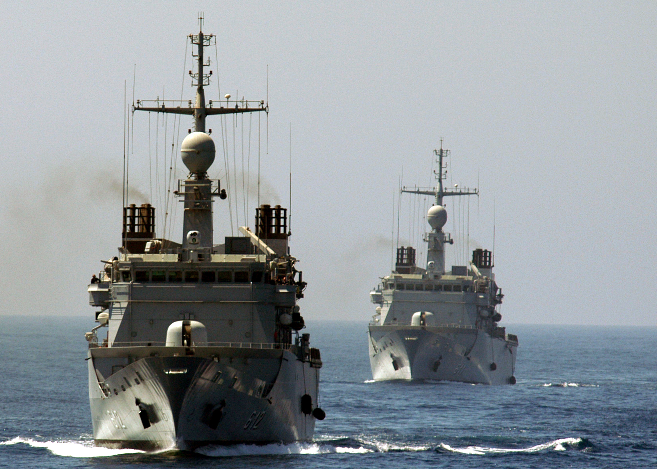 Atlantic Ocean (Apr. 5, 2005) - The Moroccan Navy Floreal-class frigates, Muhammed V (FFGHM 611) and Hassan II (FFGHM 612) conduct maneuvers with the ships assigned to the USS Kearsarge (LHD 3) Expeditionary Strike Group. The two Moroccan frigates will escort the strike group through the Strait of Gibraltar, the gateway of the Mediterranean Sea. Kearsarge and embarked 26th Marine Expeditionary Unit are on a regularly scheduled deployment in support of the Global War on Terrorism. U.S. Navy photo by Photographer's Mate Airman Christopher J. Newsome (RELEASED)